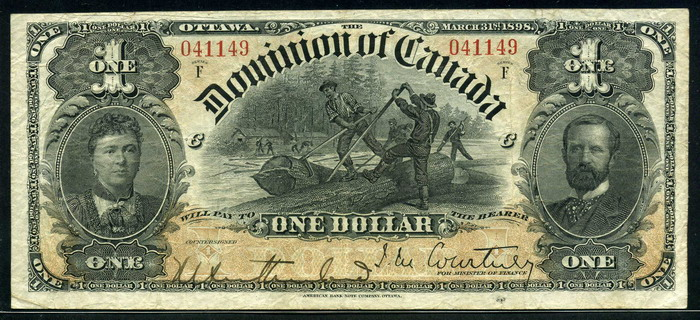 One dollar banknote of 1898, Dominion of Canada.